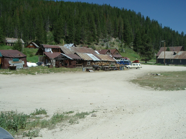 Warren, Idaho. Taken by Faustus37, 8 July 2008.